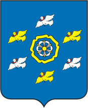 Torzhok rayon (Tver oblast), coat of arms